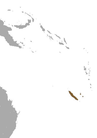 Ornate Flying Fox (Pteropus ornatus) range